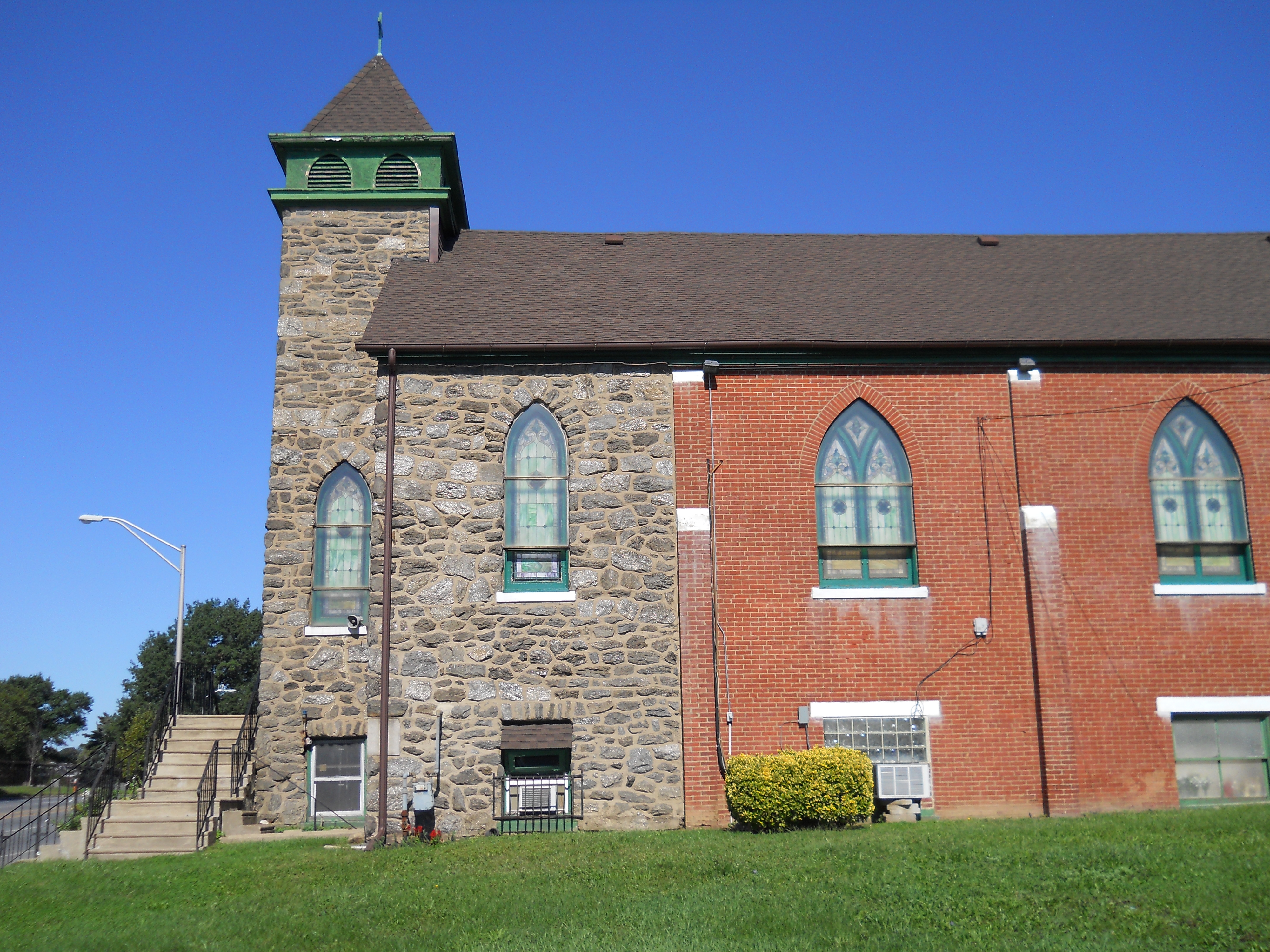 Camptown Historic District Lamott A M E Church, W. Cheltenham Ave.